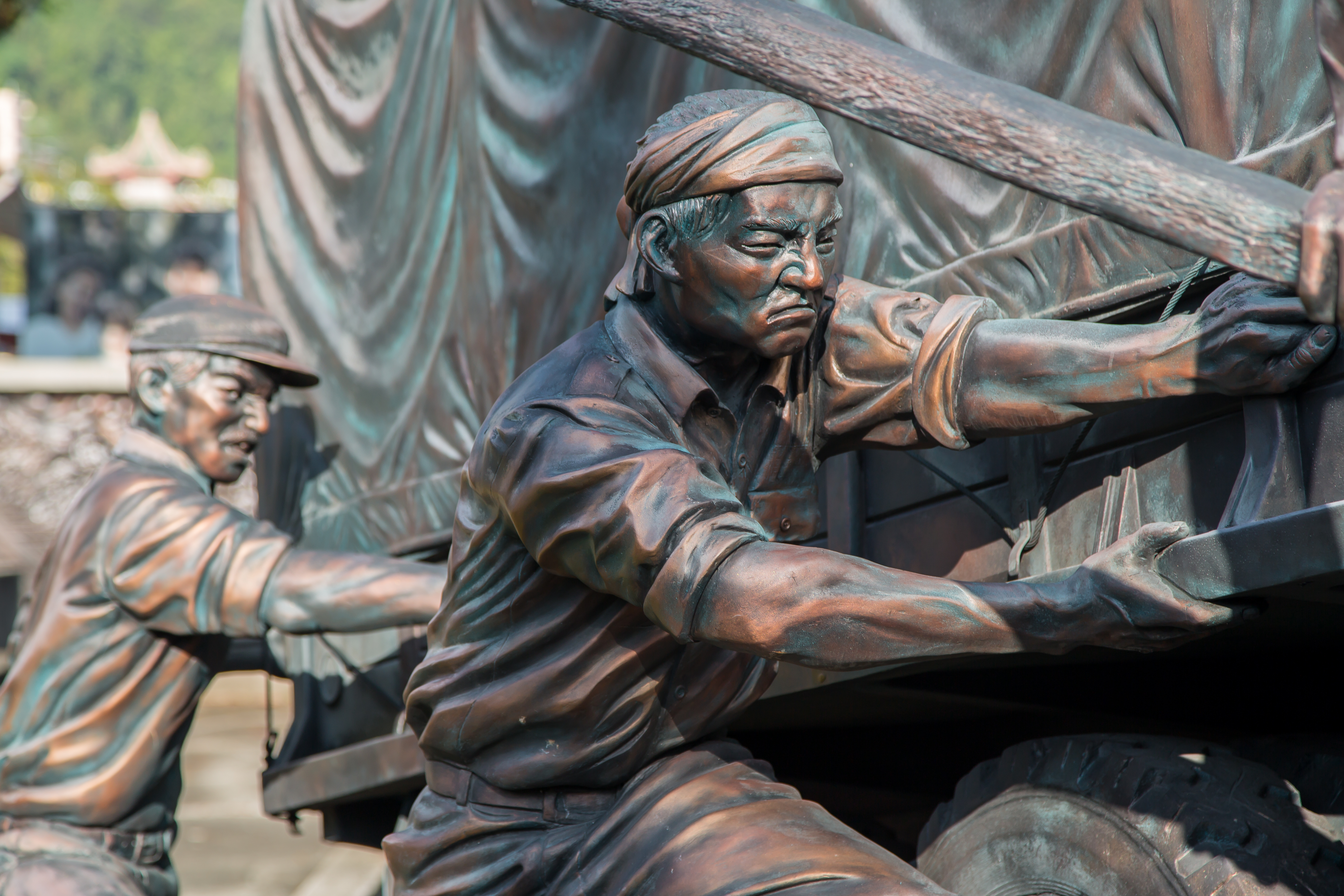 Penang, Malaysia: Detail of Penang Chinese Anti-War Memorial